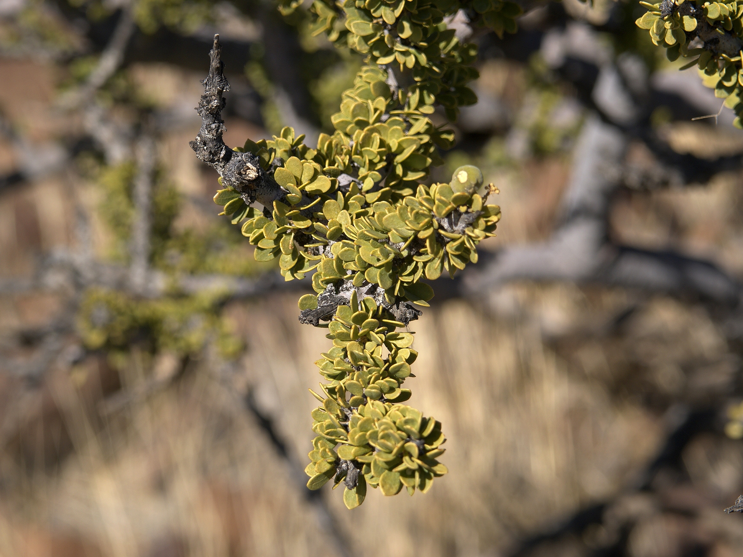 Branch and foliage of Smelly shepherd tree at Hardap Dam, Namibia